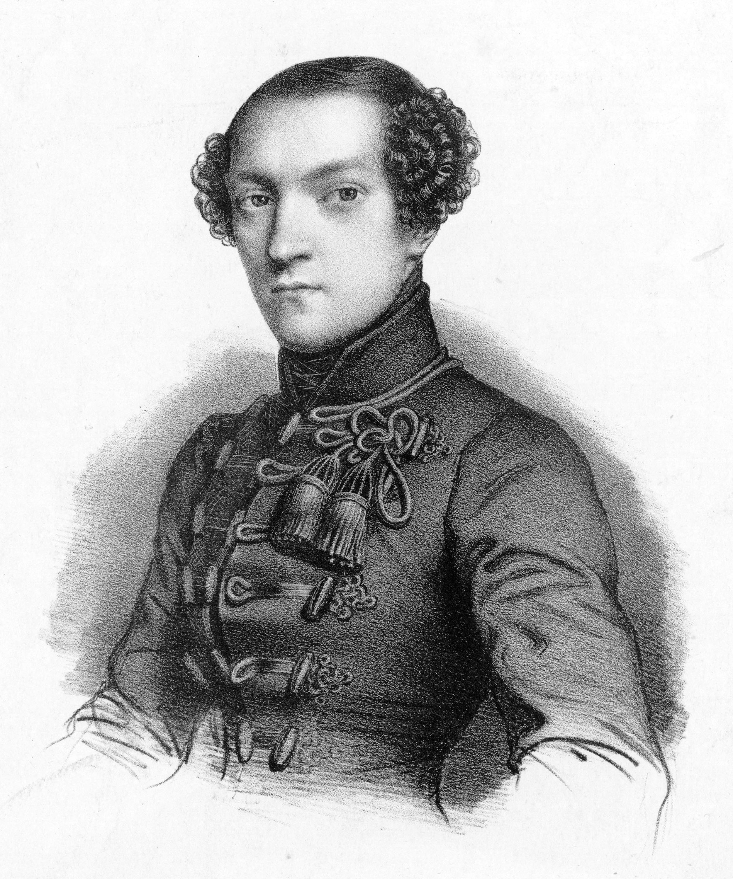 Depicted person: Antoni Kątski